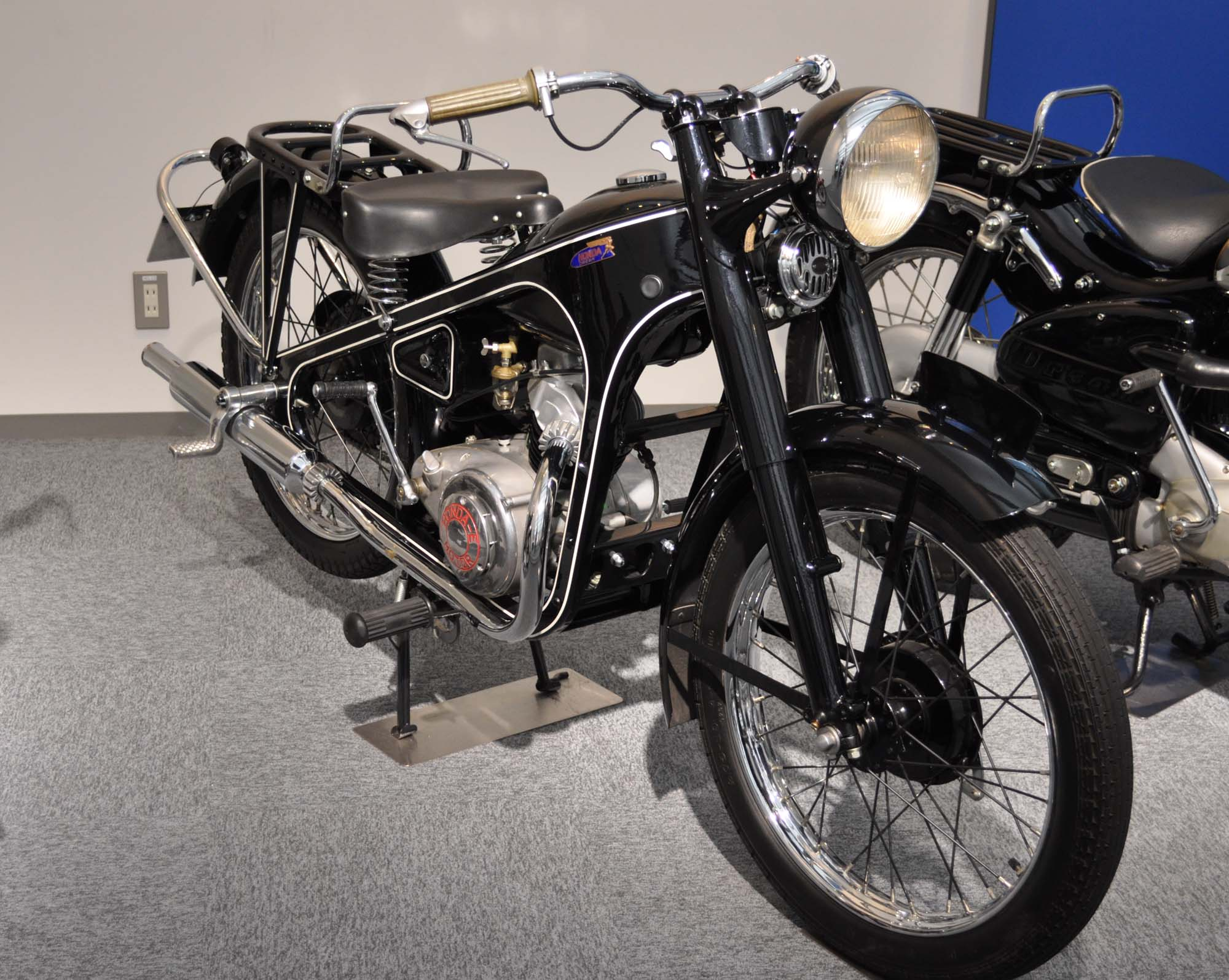 Honda Dream E (1951)